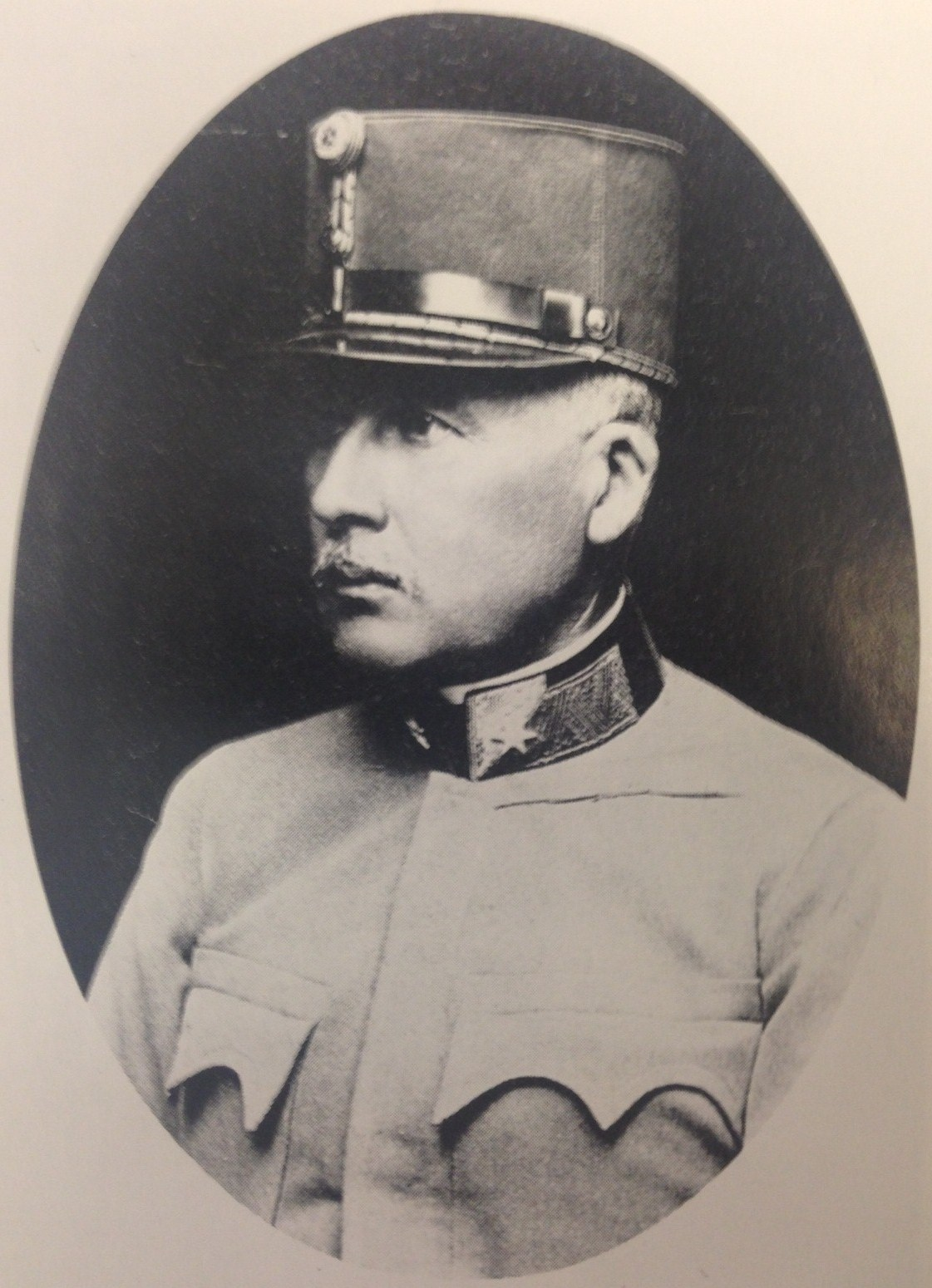 Joseph Pomiankowsi had a keen insight into the functioning of the Ottoman government and was familiar with the decisions and activities of the Young Turk party. In his memoirs Pomiankowski wrote, "I had ample opportunity to get to know the land and the people of Turkey. During the war, however, I was from start to finish eyewitness of practically all the decisions and activities of the Turkish government." In 1909, Pomiankowski stated that the Young Turk government planned to "exterminate" non-Muslim conquered peoples.